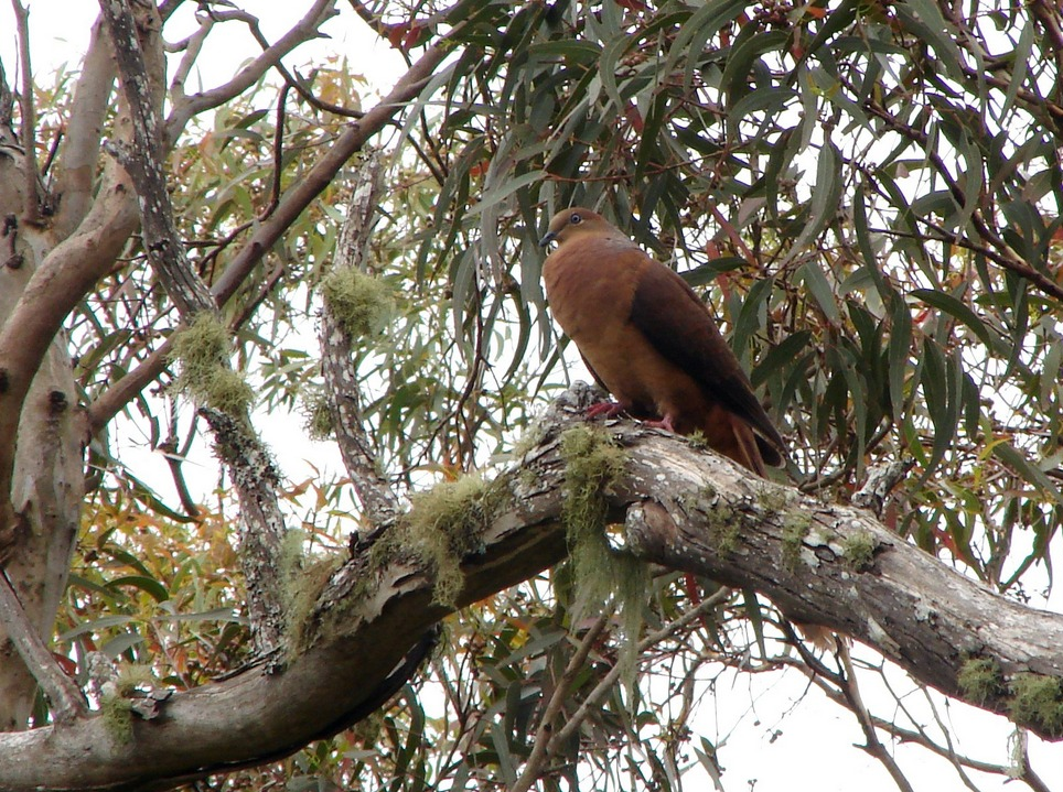 Brown Cuckoo-dove (Macropygia phasianella) sitting on the gum tree, at the edge of rainforest of Bunya Mountains National Park, QLD, Australia (1000m above sea level).